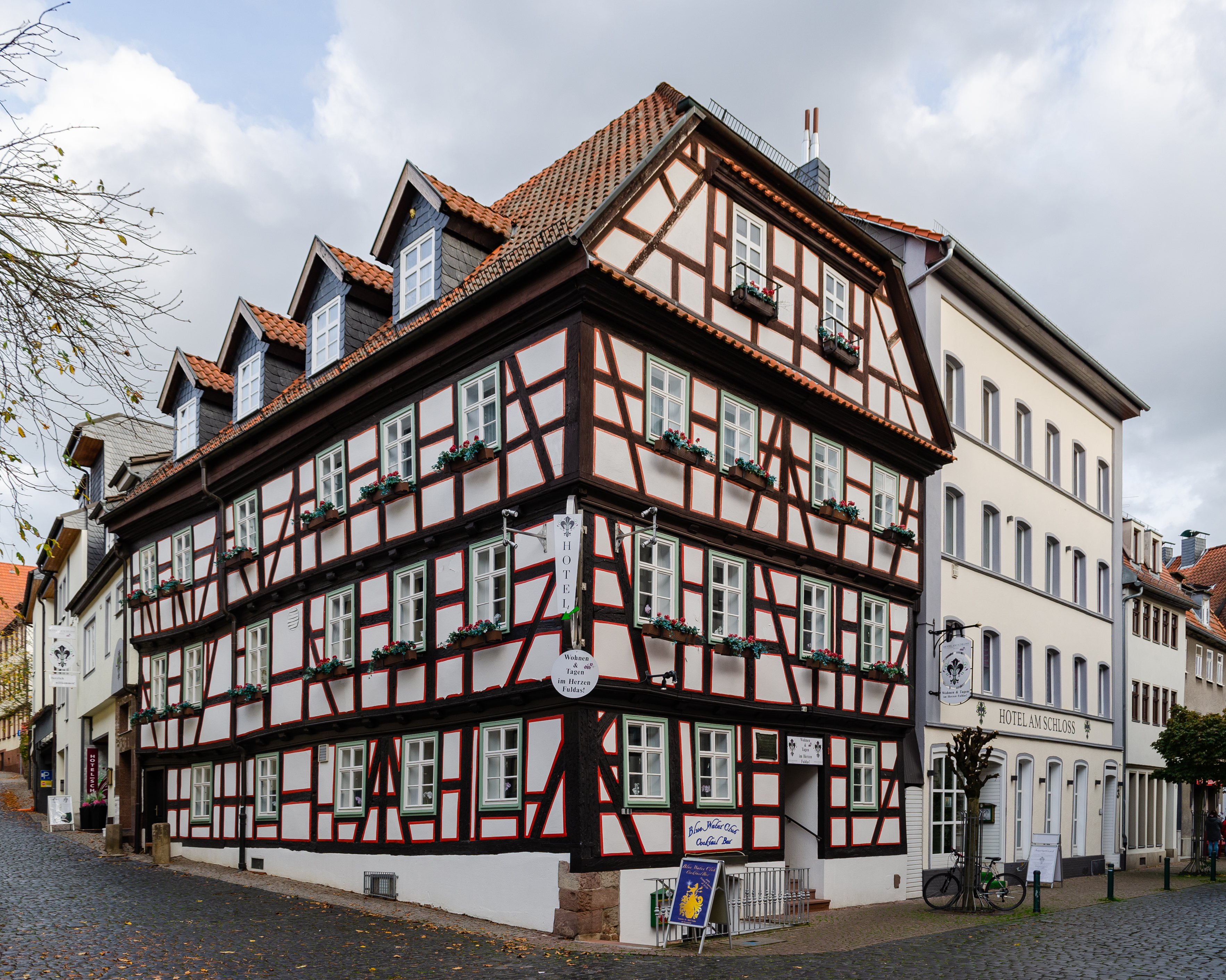 Fulda (Hesse, Germany) – half-timbered house, birthplace of Karl Ferdinand Braun